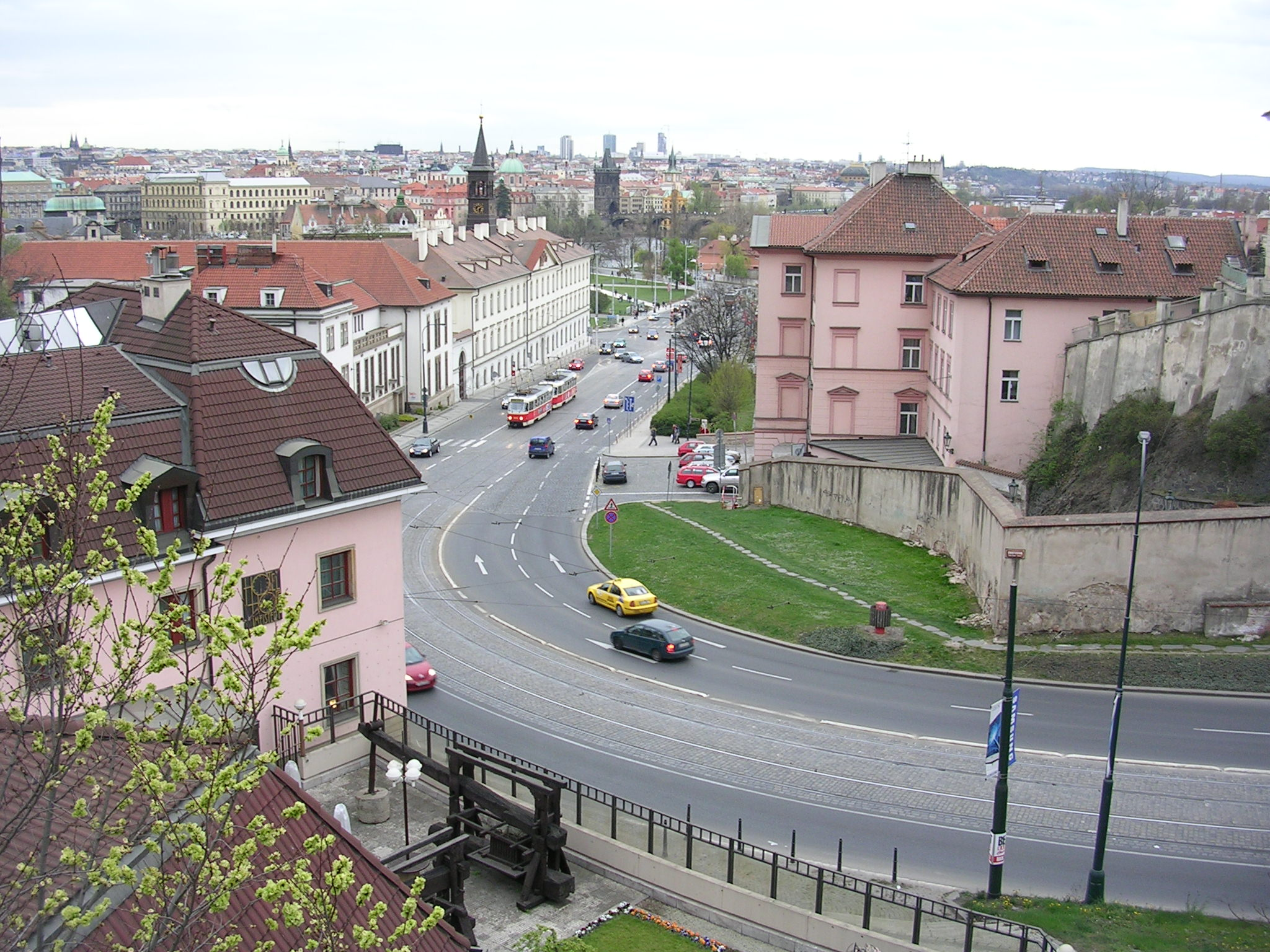 Malá Strana, Prague, the Czech Republic. - OpenStreetMap(Info)